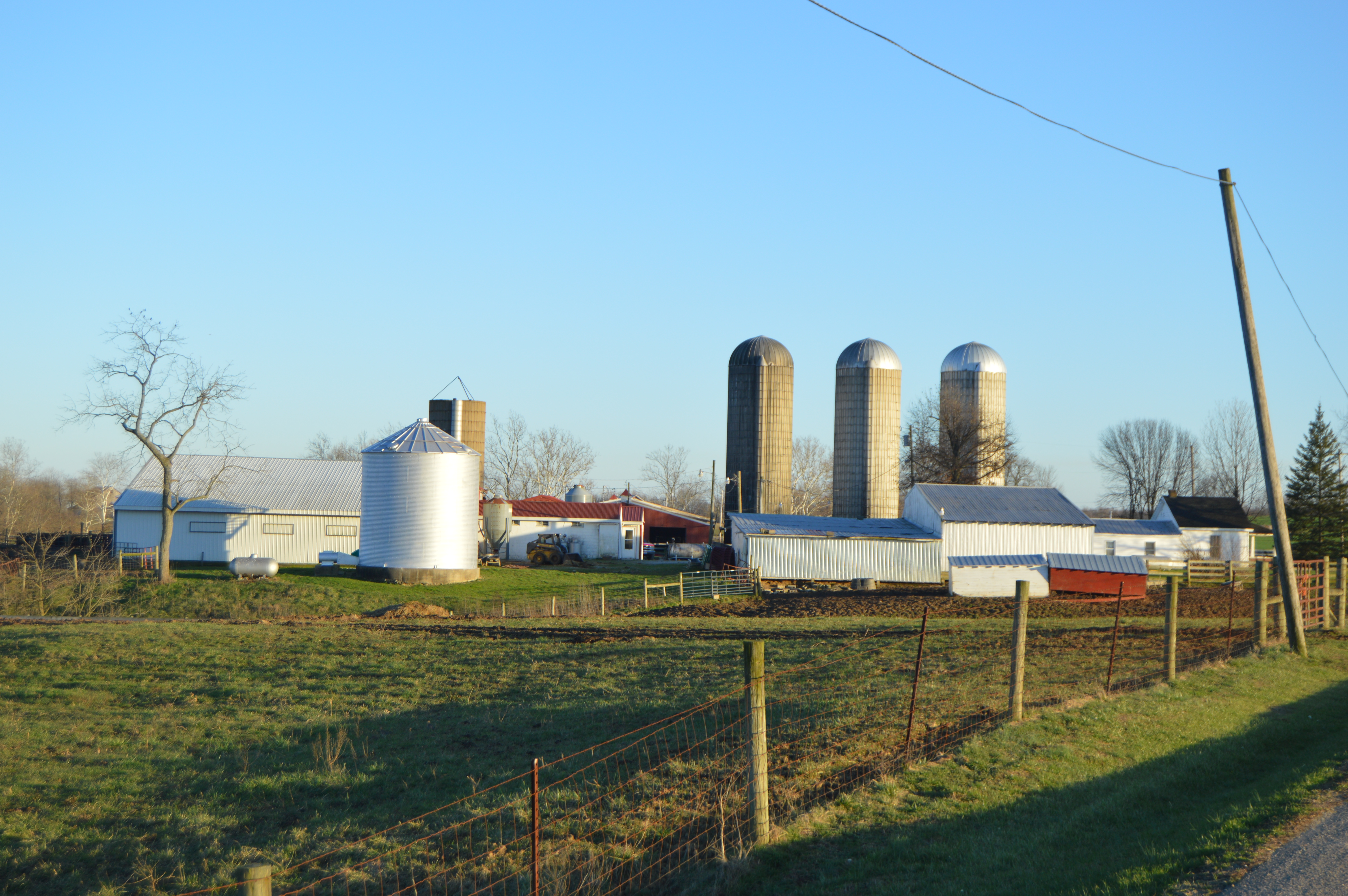 Buildings at a farmstead on George Miller Road just southeast of Russellville in Jefferson Township, Brown County, Ohio, United States.